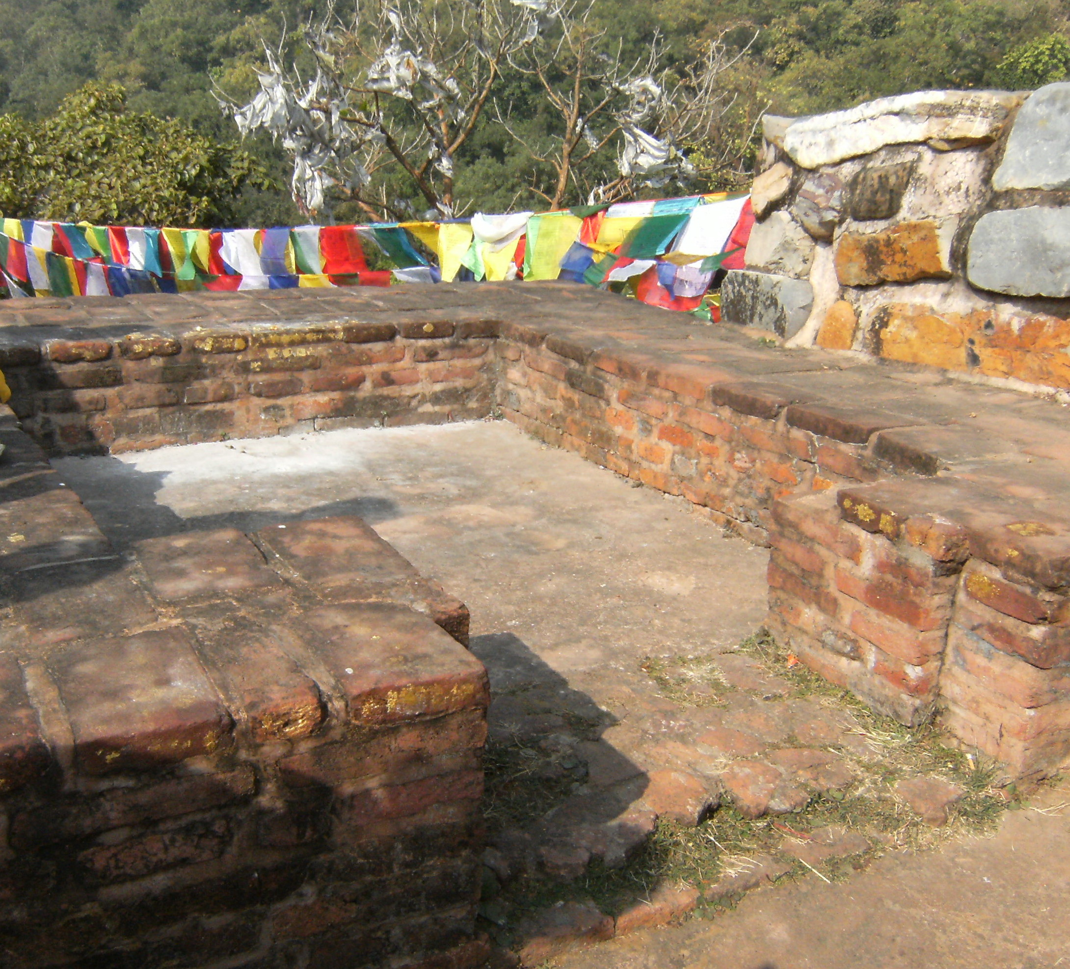 Ananda at Vulturepeak, Rajir, Bihar, India.